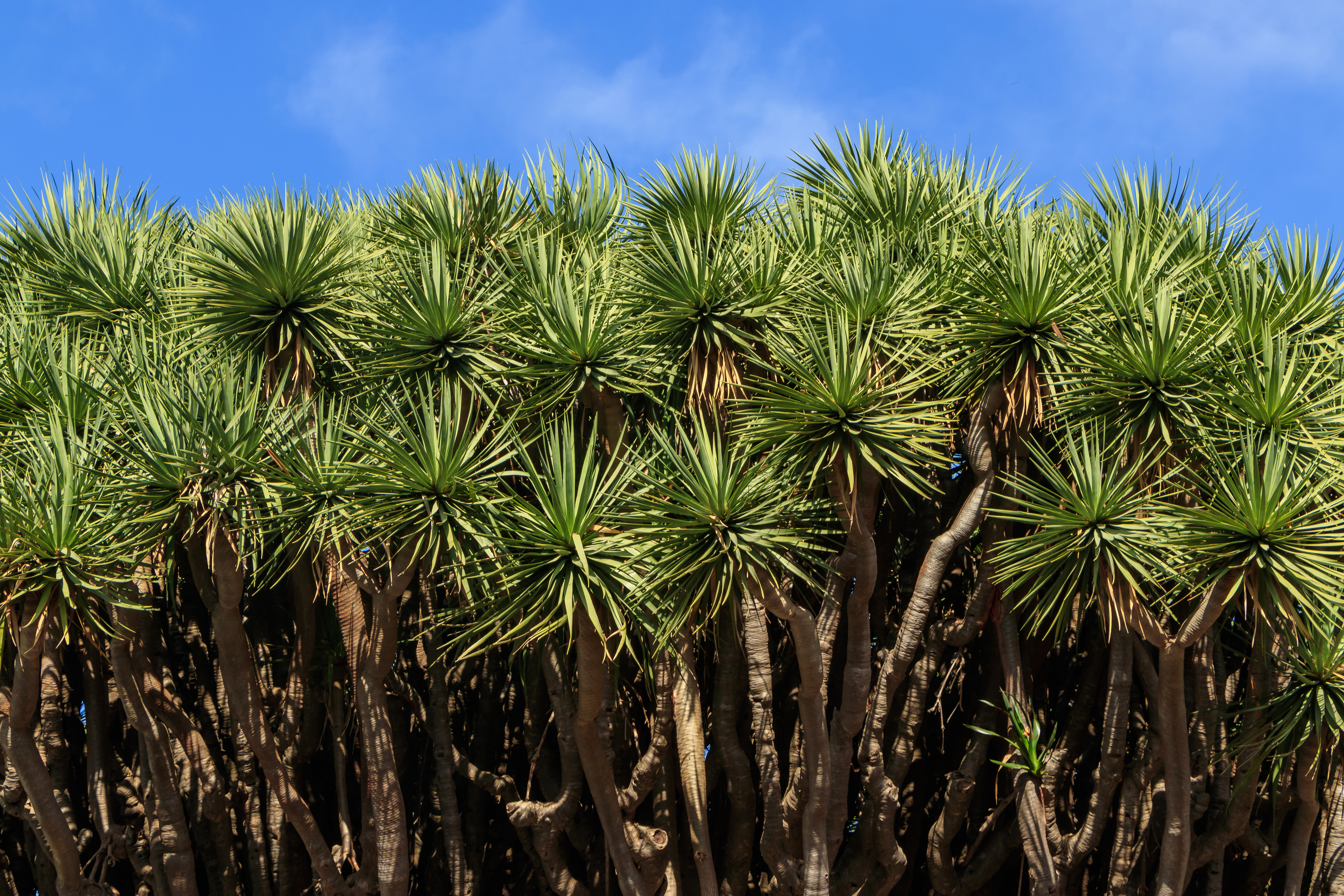 Part of the treetop of one of "Los Dragos Gemelos" (The twin dragon trees) of Breña Alta, La Palma, Canary Islands, Spain. „Dragos Gemelos“ are the oldest dragon trees of la Palma, and reach a height of about 15 meters. Their treetops are entangled. It is said, that long ago, two brothers loved the same girl. As she could not decide, the two brothers fought with each other. The fight was hard, and both died. The girl was very sad, and decided never to marry. She planted two dragon trees at the place of the fight, so that the memory of the two brothers will last for ever.